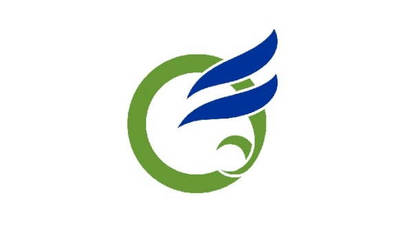 Flag of Kihoku, Ehime